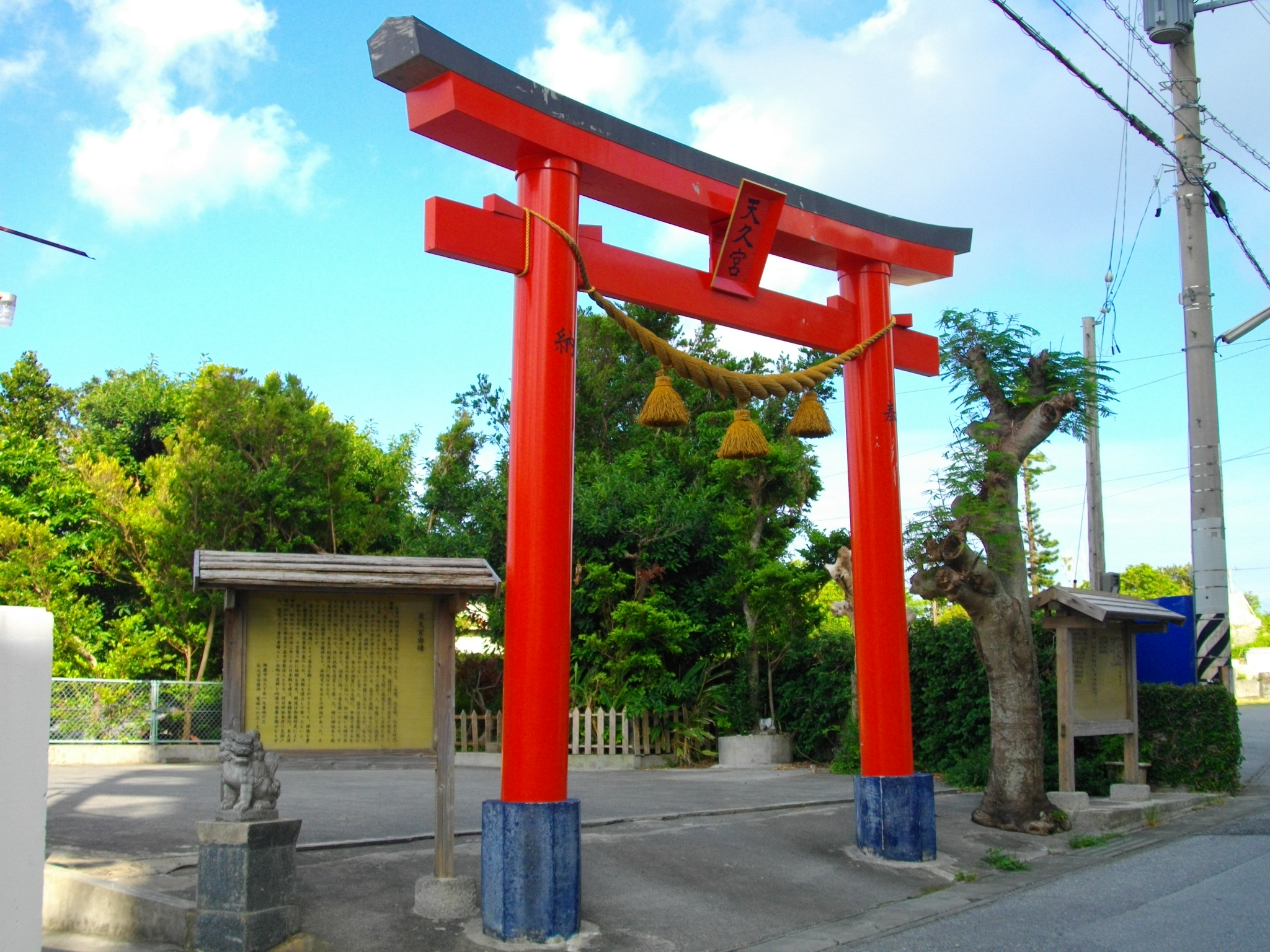 Ameku-gū torii gate